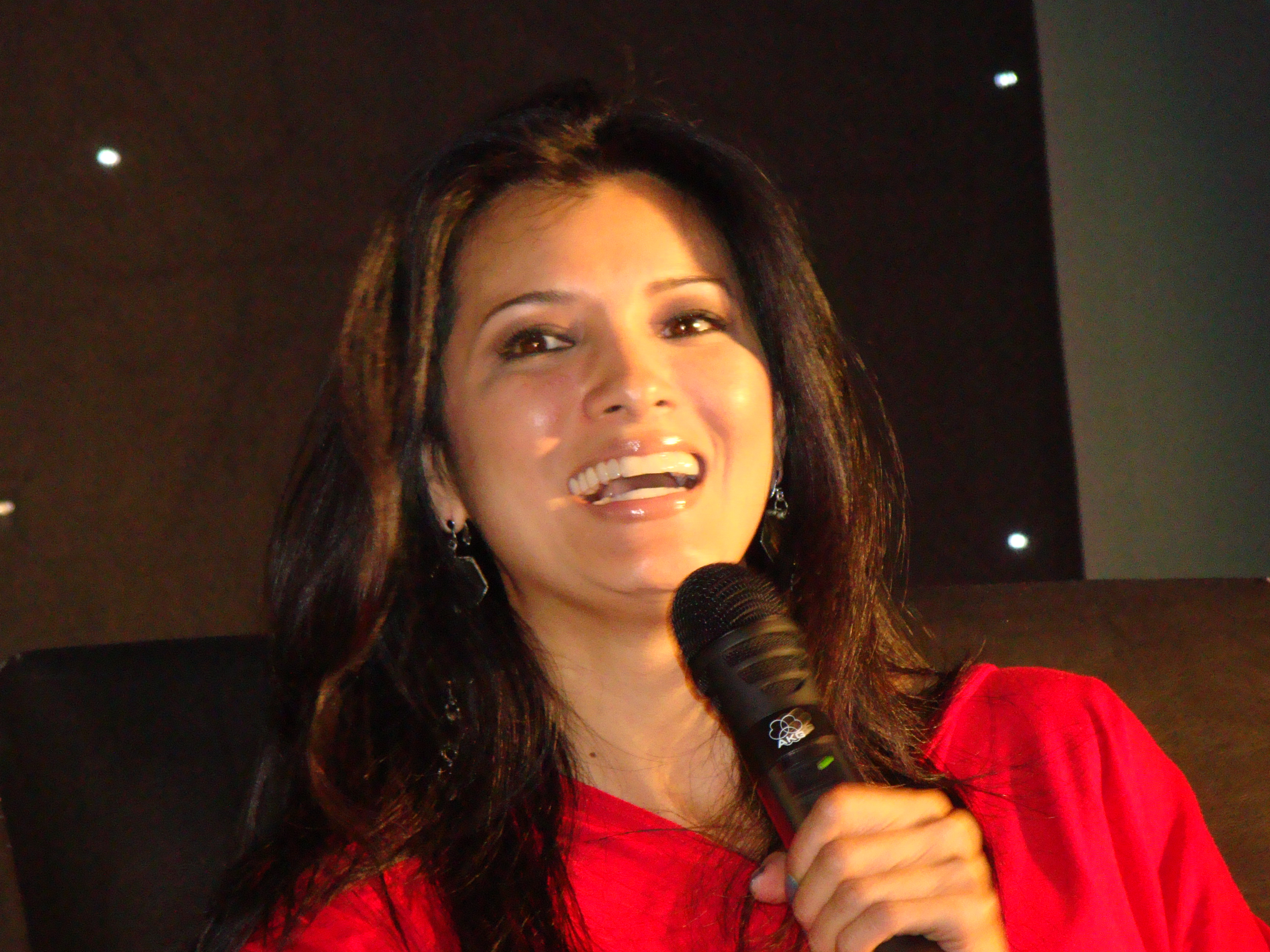 Kelly Hu